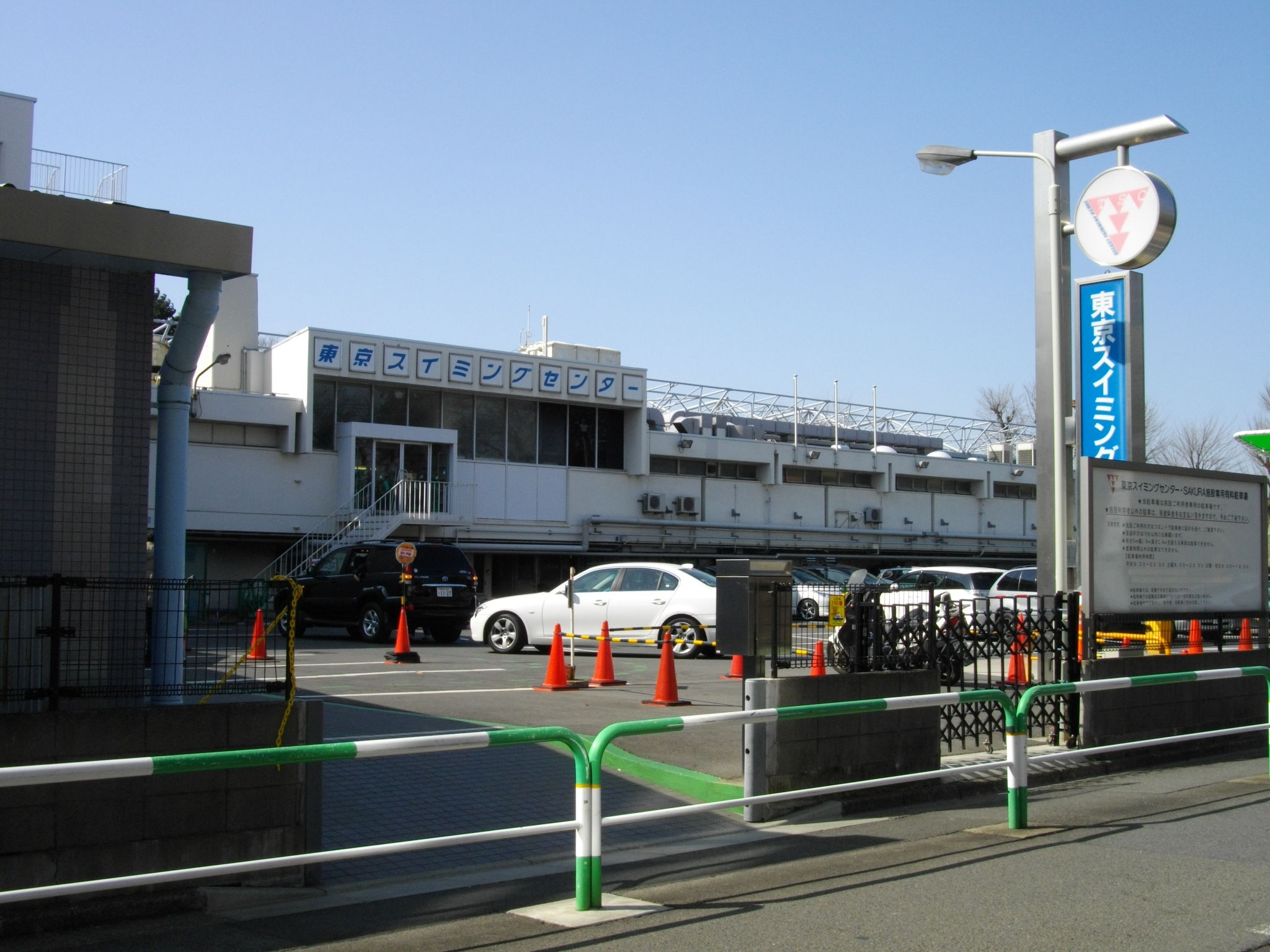 Tokyo Swimmimg Center